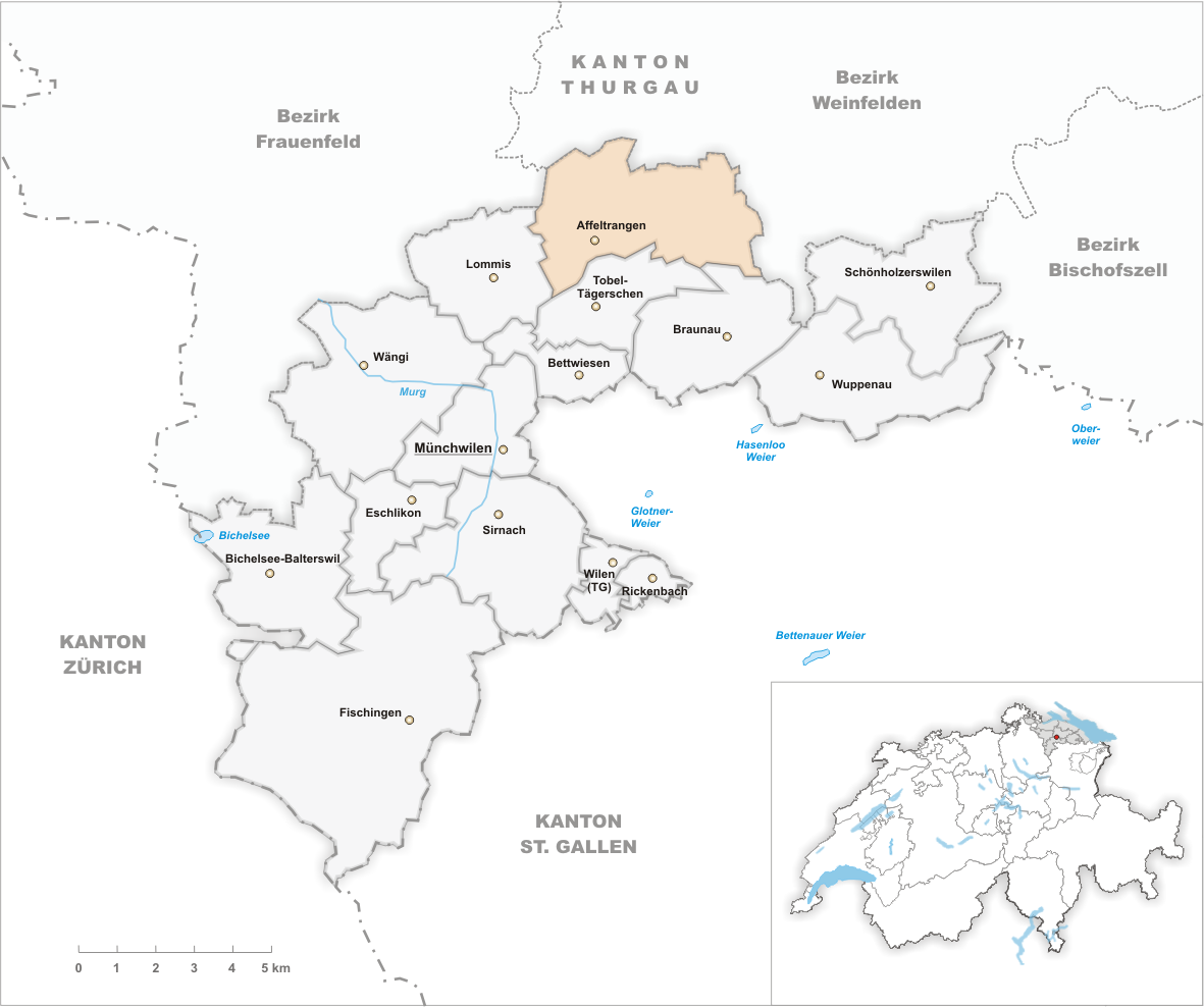 Municipality Affeltrangen